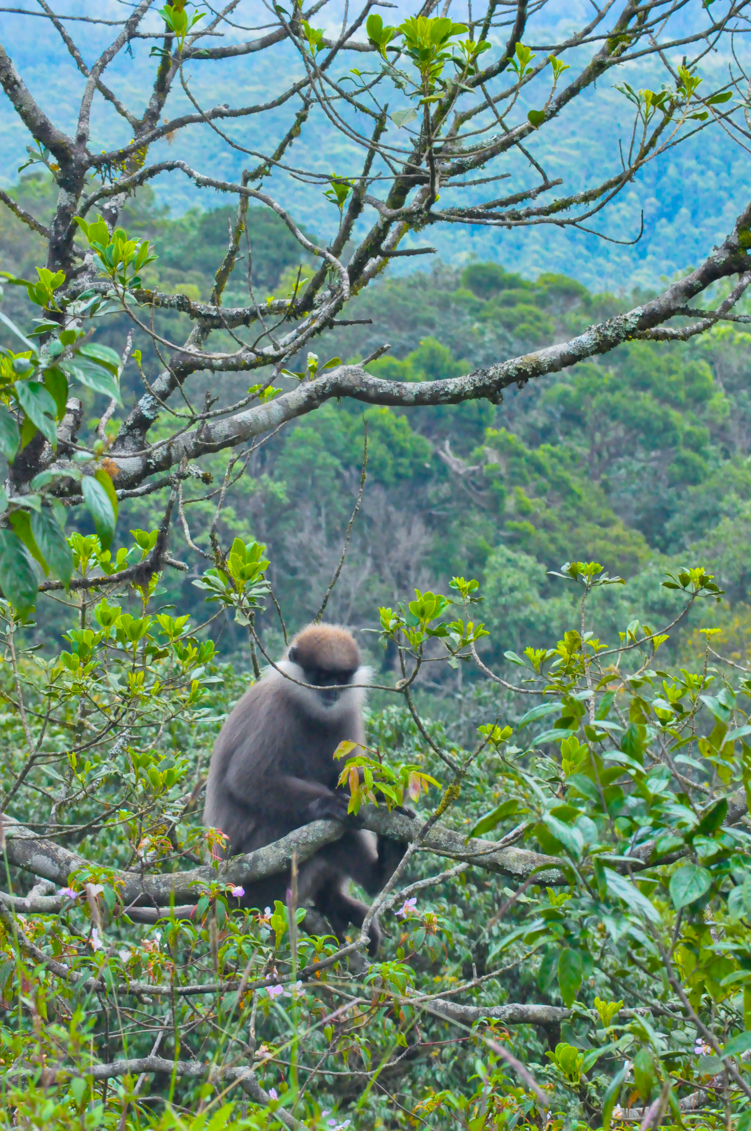 Purple-faced langur spotted in Horton Plains national park, Sri Lanka